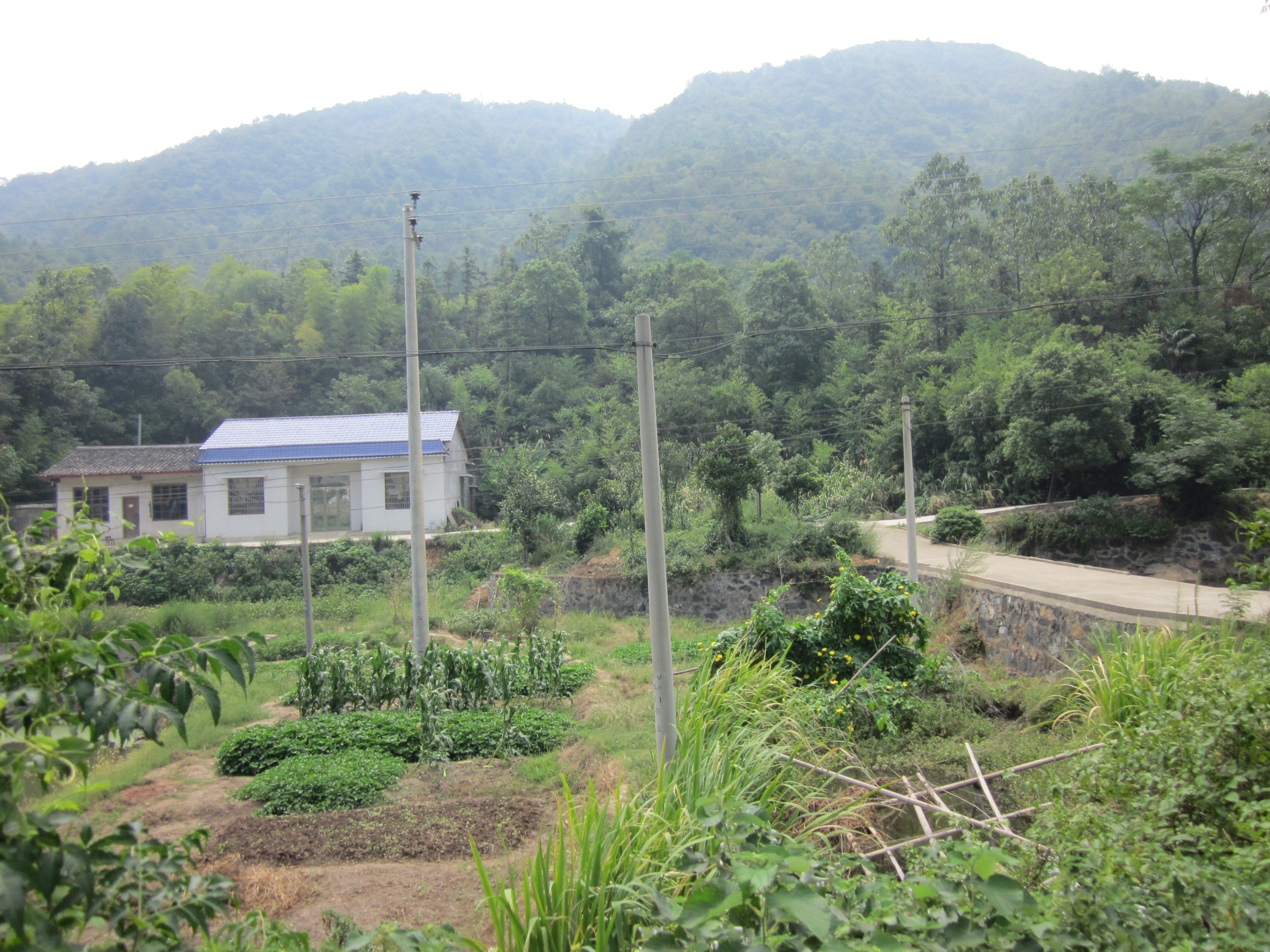 Daping Township (simplified